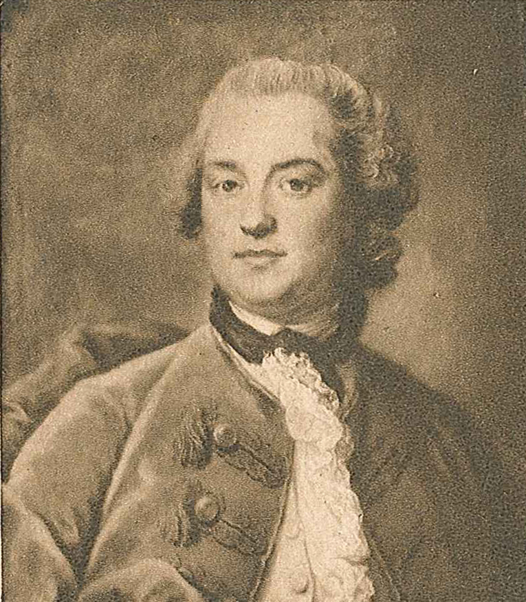 Göran Gyllenstierna (1724-1799), Swedish count, jurist, senator and marshall of the realm.